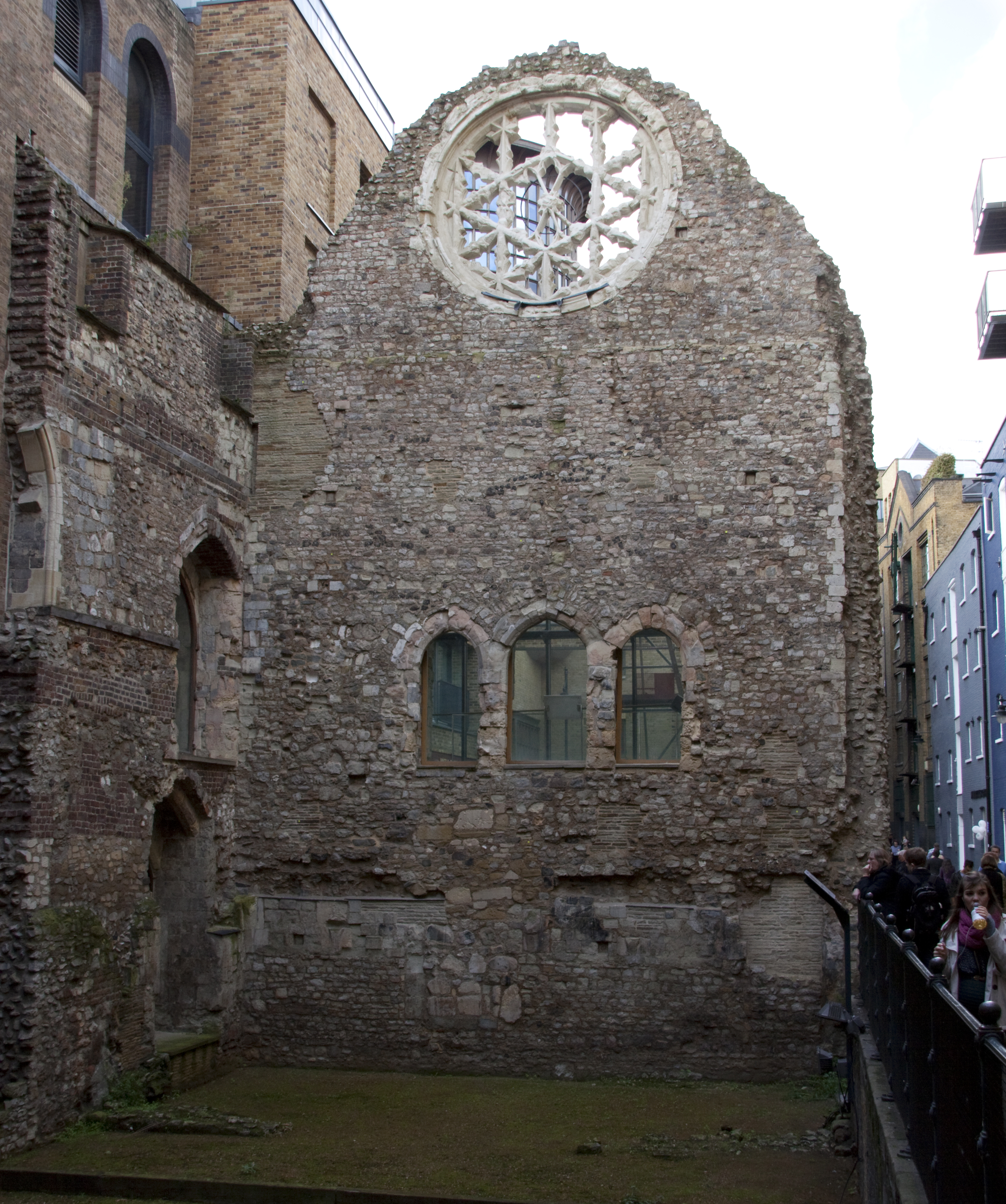 Remains of Winchester Palace